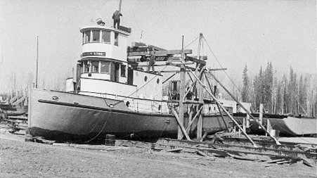 Re-construction of the tugboat Radium King in Waterways Alberta, 1937. The Radium King was first constructed at the Manseau shipyards in Montreal, then disassembled, and the pieces shipped by rail to Waterways, then the northern terminus of the North American railroad grid.